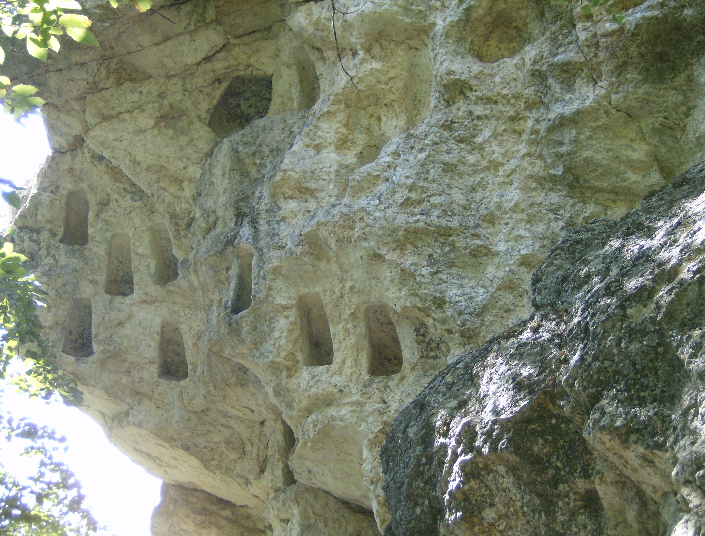 Gluhite kamani